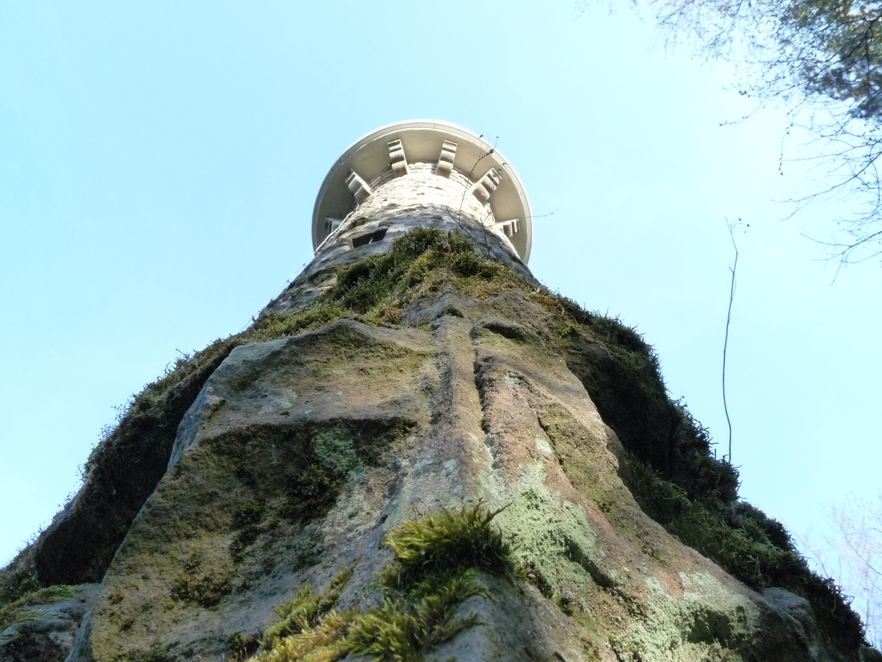 Lucas-Cranach-Turm from the bottom.